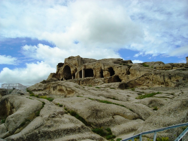 Uplistsikhe, a ruined rock-hewn city of ancient Georgia